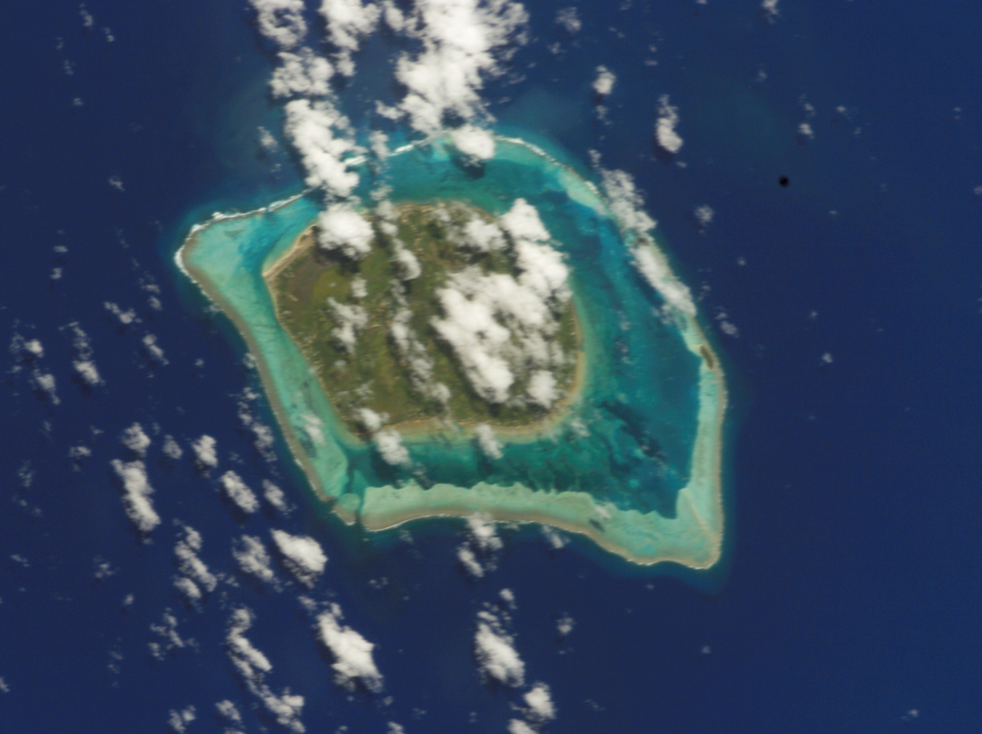 NASA Astronaut Image of Tubuai, Austral Islands, French Polynesia